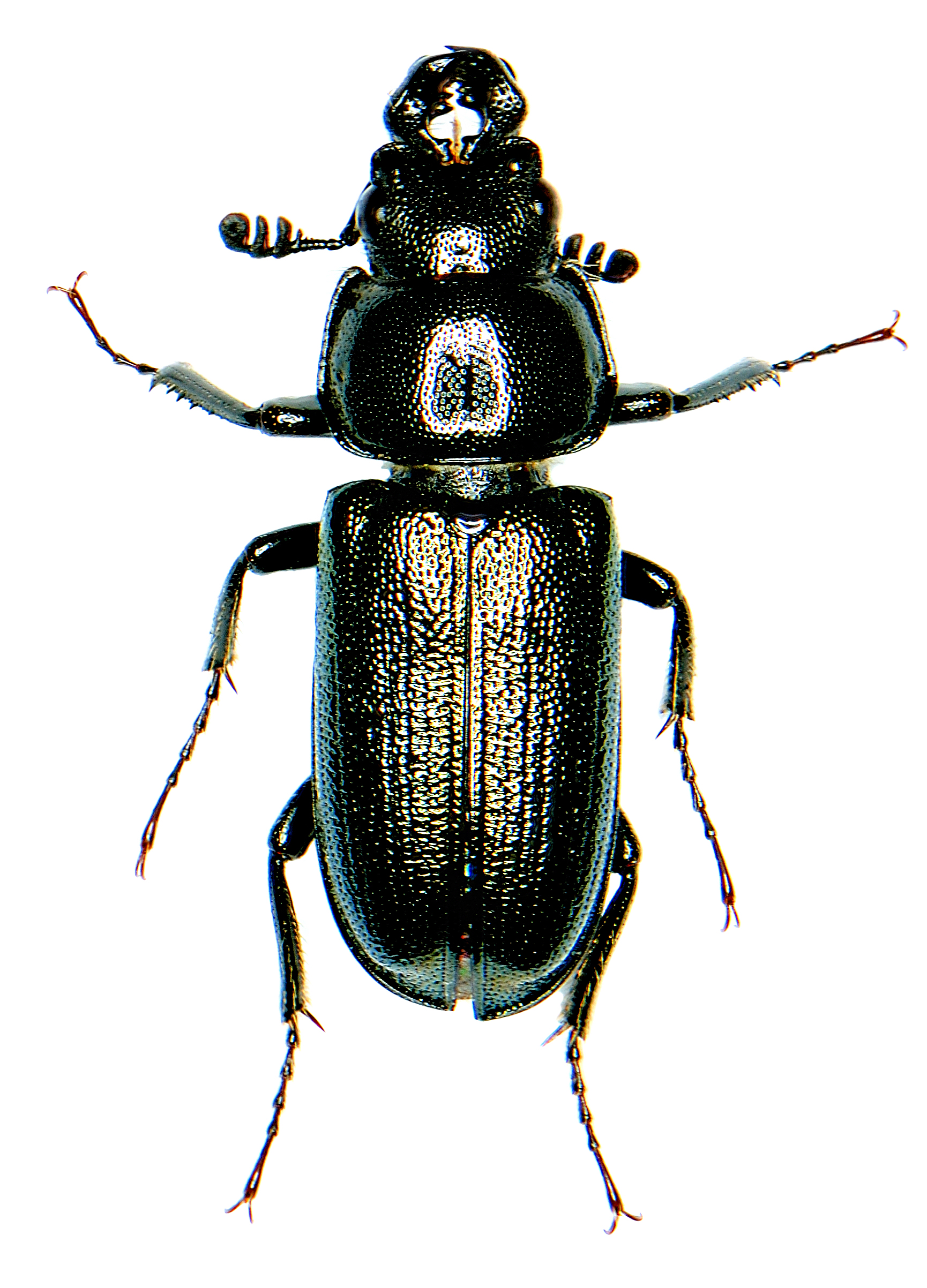 Specimen of Platycerus virescens (Fabricius), a stag beetle. This individual was collected in USA: Connecticut: Middlesex County: Killingworth, on a house window screen, 30-Apr-2011, collector M.K. Oliver, in collection of same. The length of the beetle (excluding legs) is 11 mm.